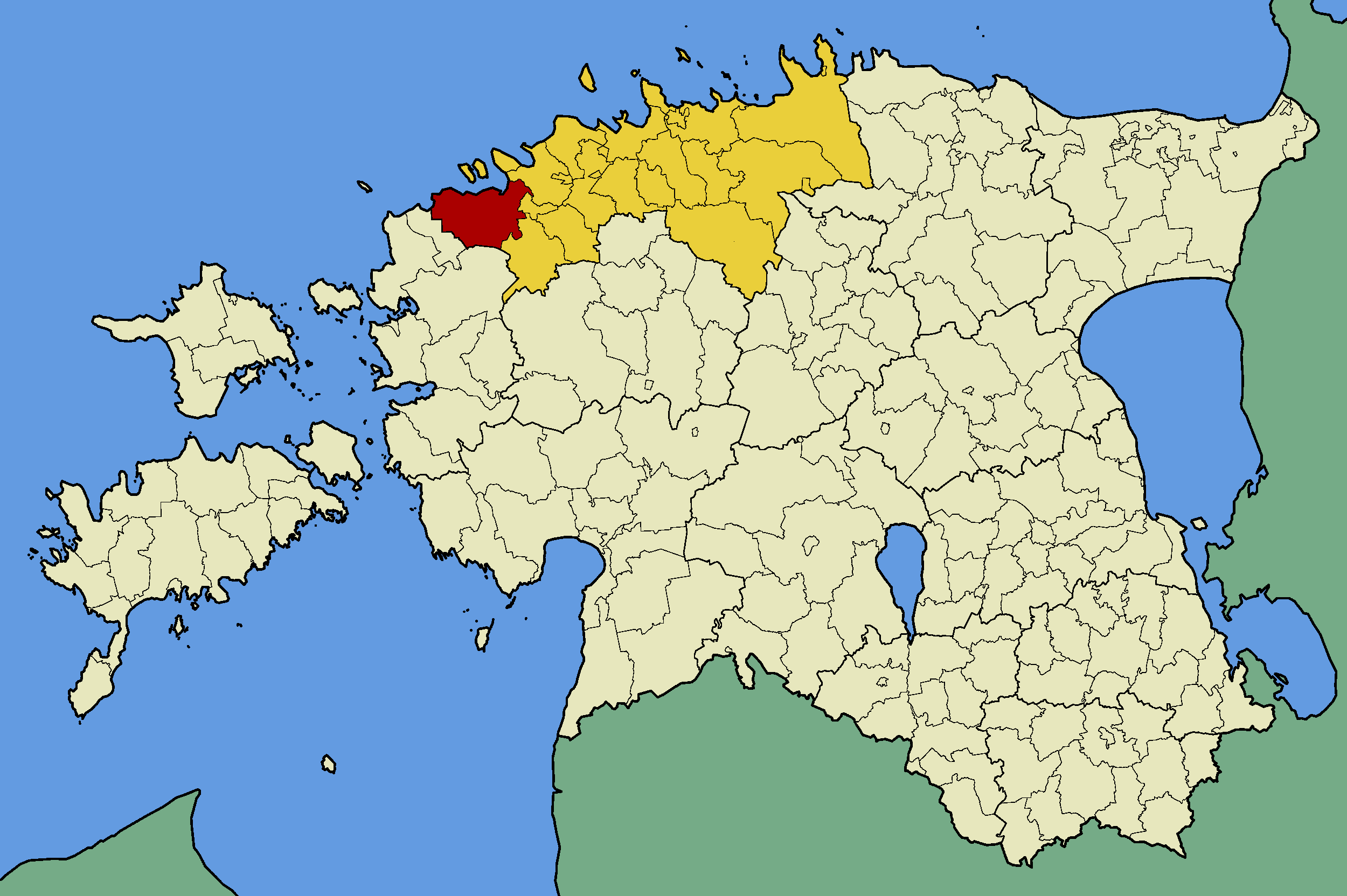 Map of Estonia with borders of municipalities (parishes). Harju county and Padise municipality (parish) emphasized.